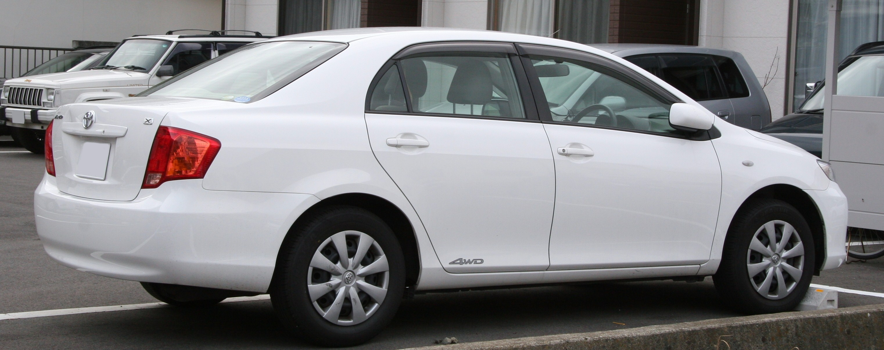 Toyota Corolla Axio